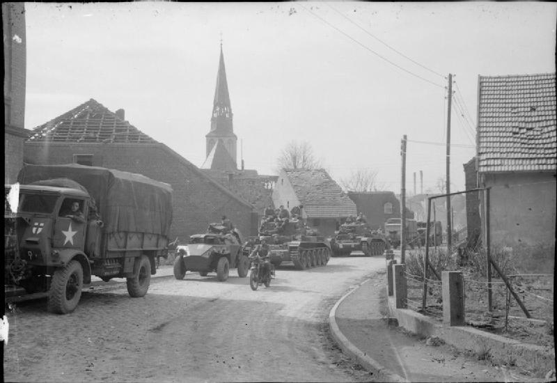 The British Army in North-west Europe 1944-45 Cromwell tanks, scout cars and trucks of 7th Armoured Division pass through Brunen during the advance from the Rhine bridgehead, 29 March 1945.